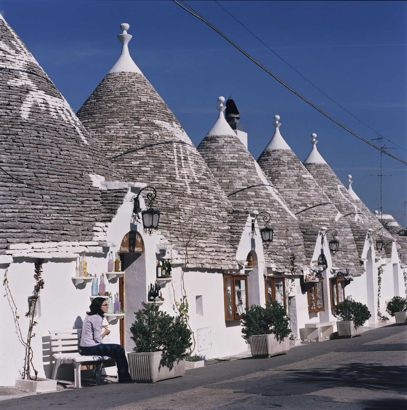 The Trulli of Alberobello